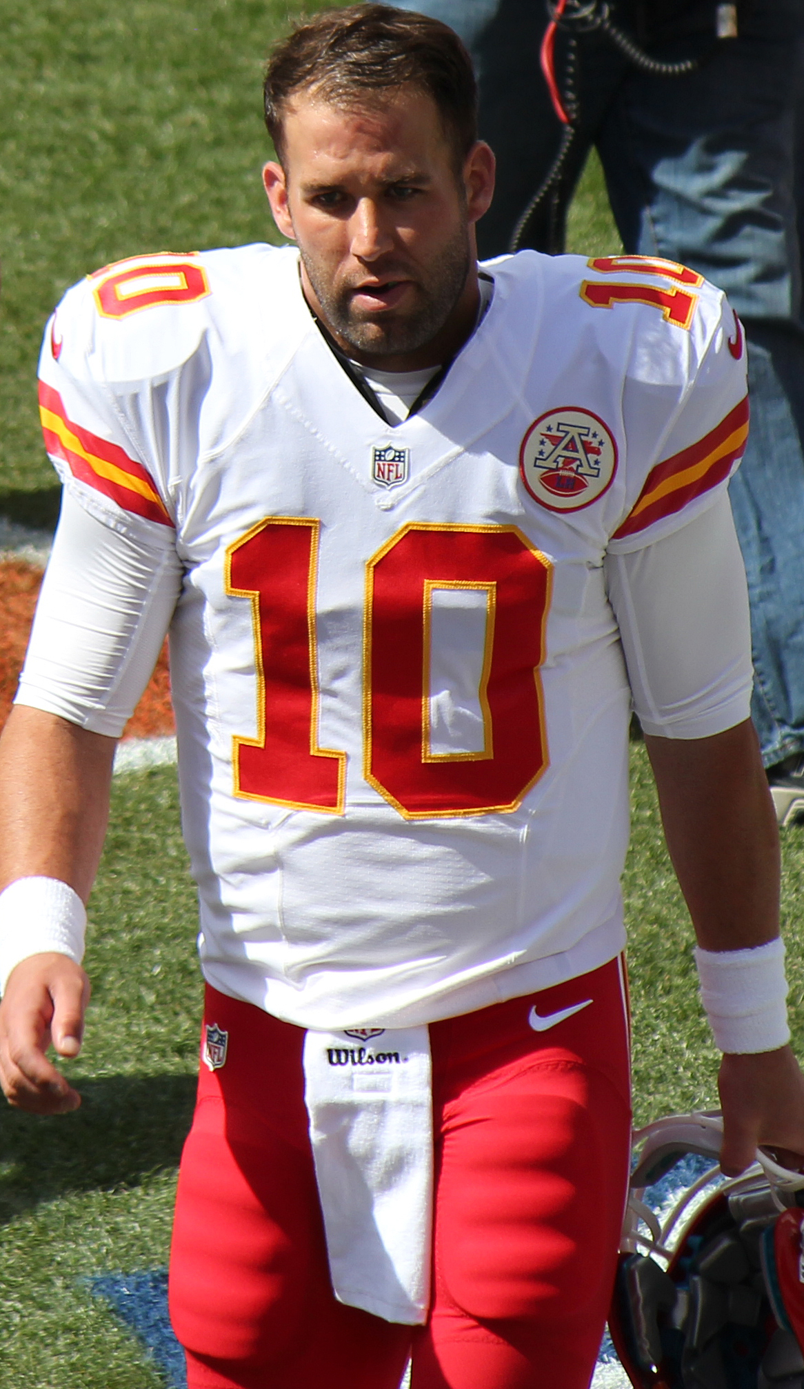 Chase Daniel, a player on the National Football League.